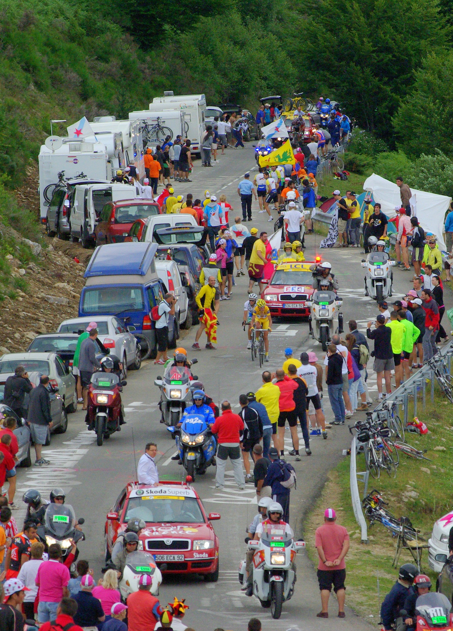 Rasmussen (in the yellow jersey), was kicked off his team just a few days later for "breaking team rules." He definitely missed a series of drug tests over the summer, but I suspect something else must have happened, too.Yellow Jersey Arrives